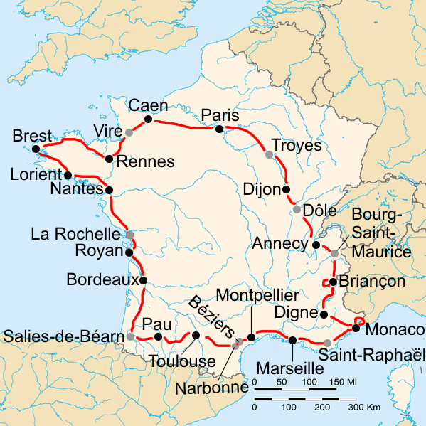 Route of the 1939 Tour de France, starting and finishing in Paris. The black dots are the cities that hosted a stage start and finish, the grey dots are the cities where a split stage was split.